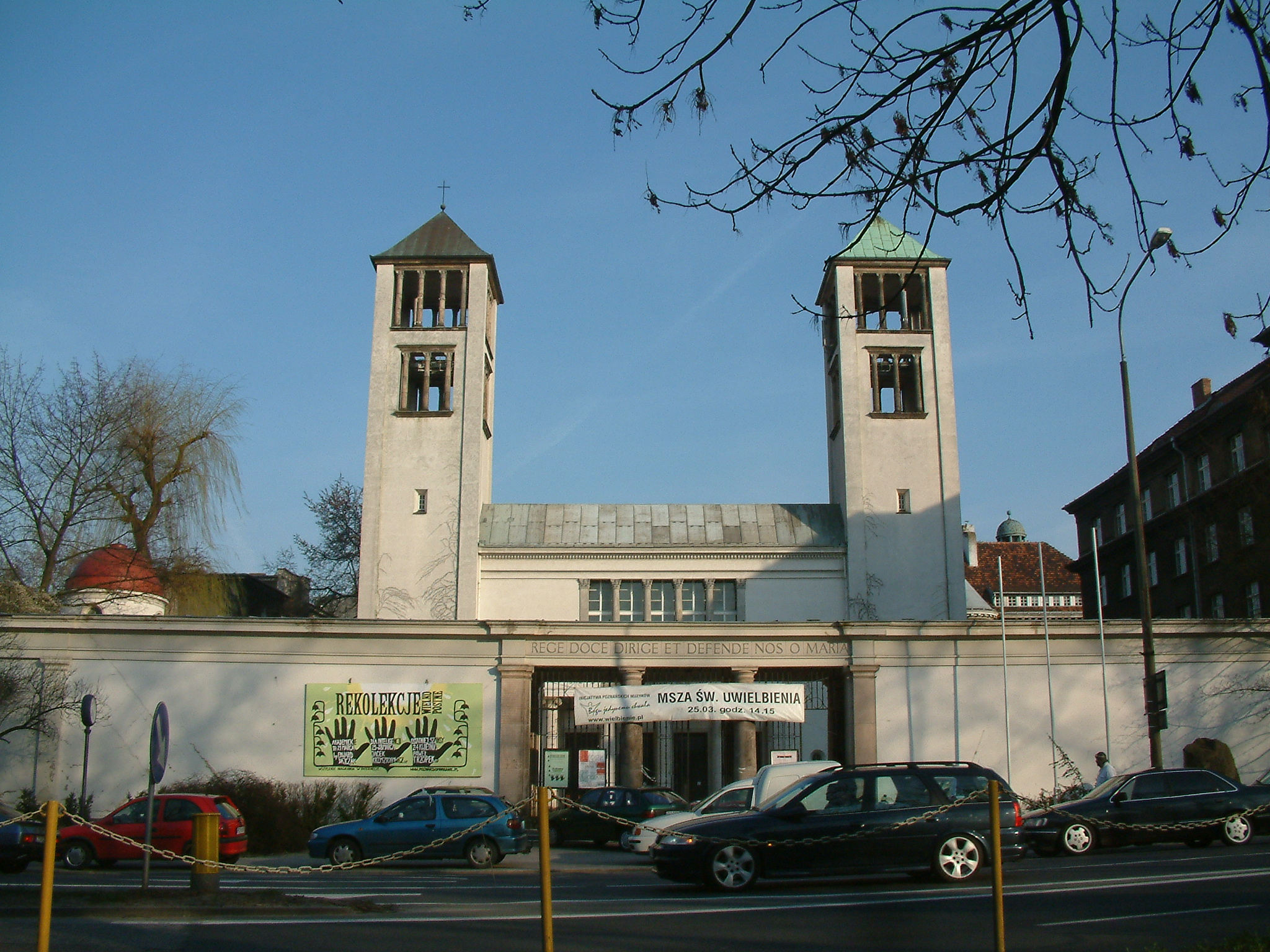 Church of Dominicanes in Poznań